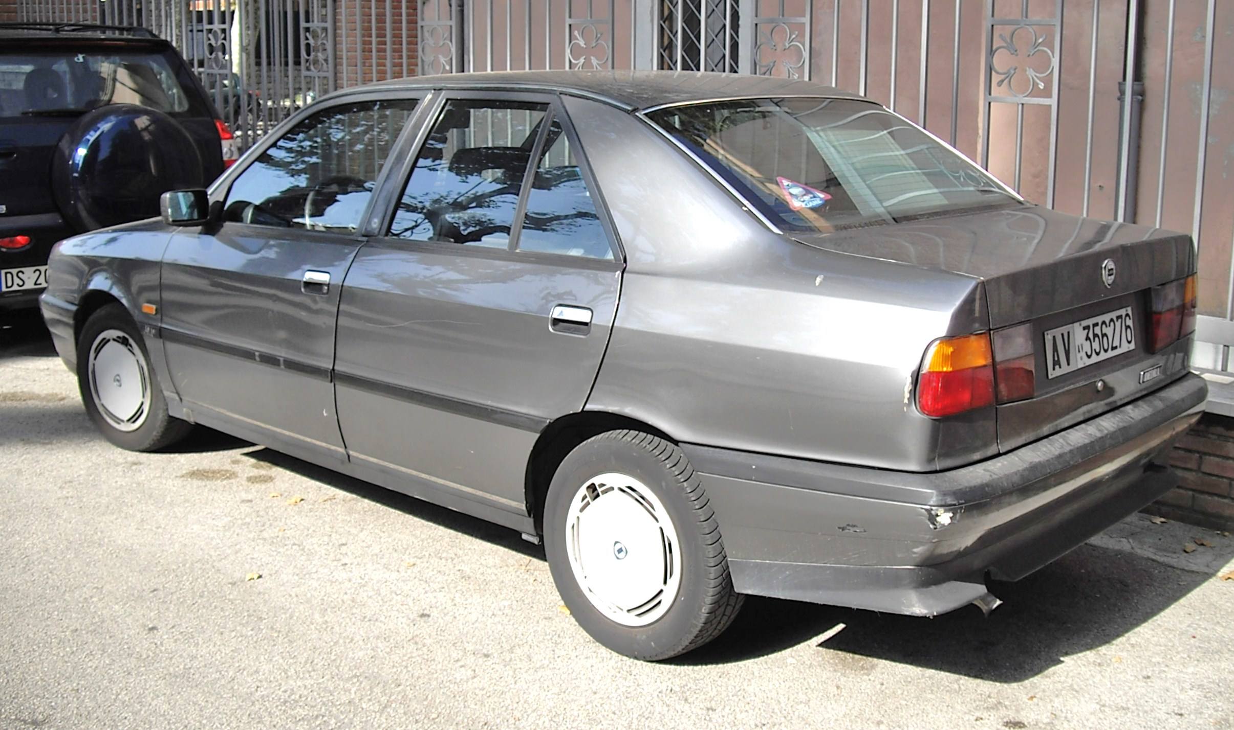 Lancia Dedra